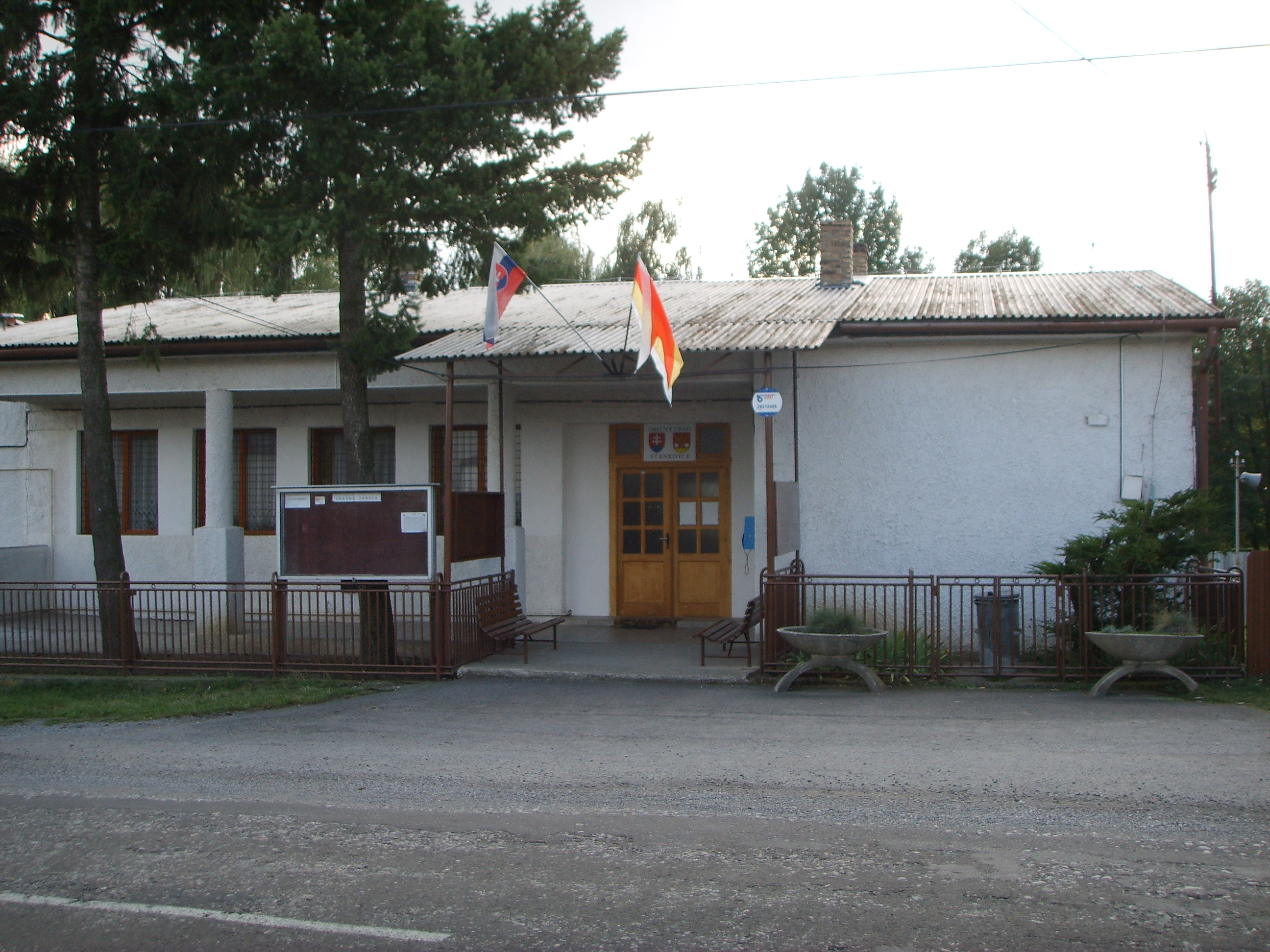 Municipal office in Stankovce, District Trebišov, Slovakia